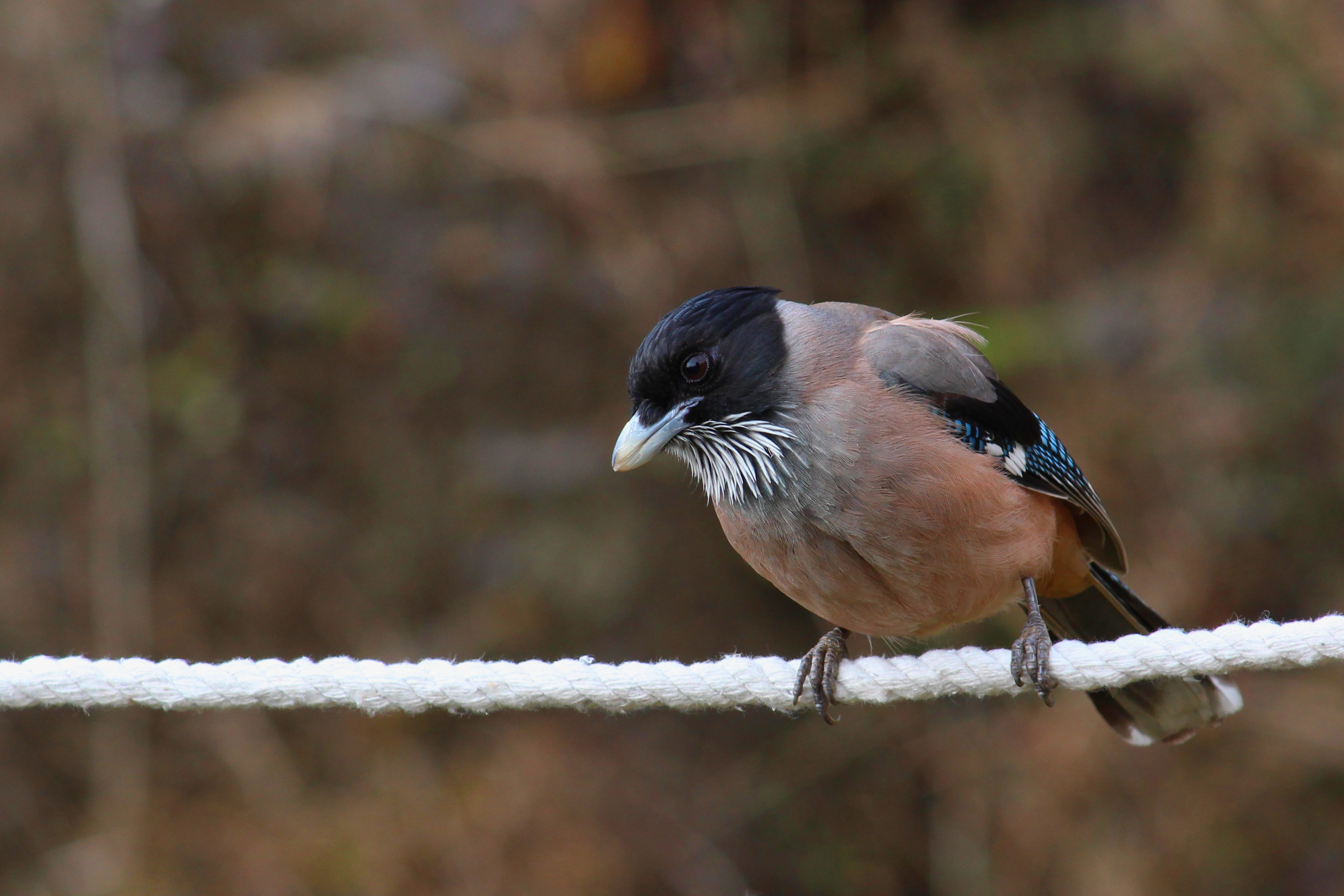 A commoner in Sattal vicinity.